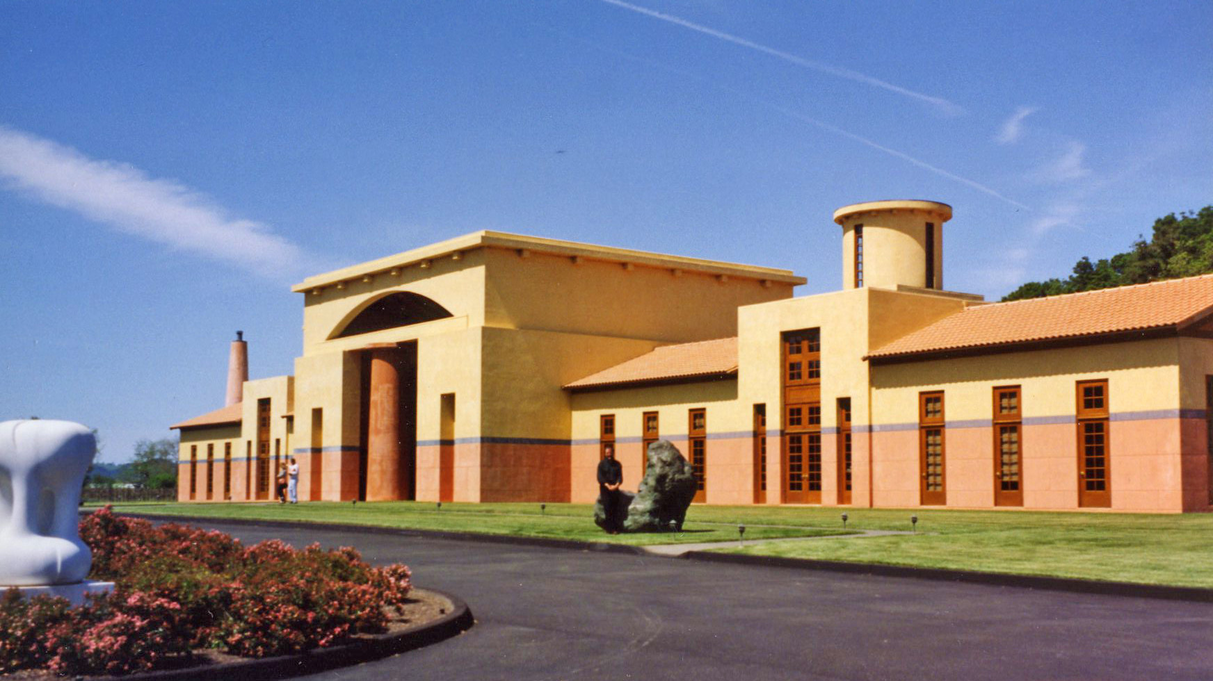 Clos Pegase Winery, Dunaweal Lane, Calistoga, Napa Valley, California